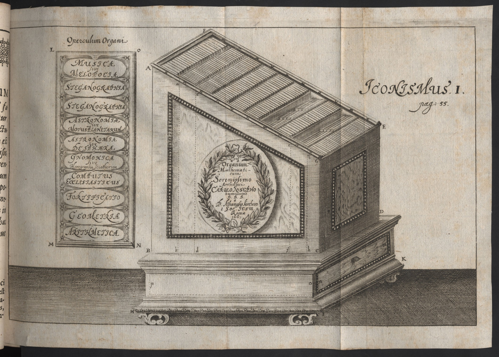 The Organum Mathematicum. An information device conceived by Athanasius Kircher and illustrated in Gaspar Schott's 1668 book, "Organum Mathematicum". It is a wooden chest containing slats or rods which aid in various calculations, including Arithmetic, Geometry, Fortifications, Chronology, Horology, Astronomy, Astrology, Cryptography and Music Composition.